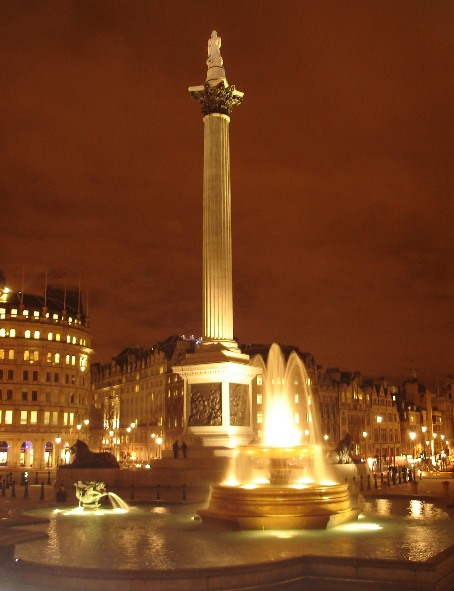 Trafalgar Square at night